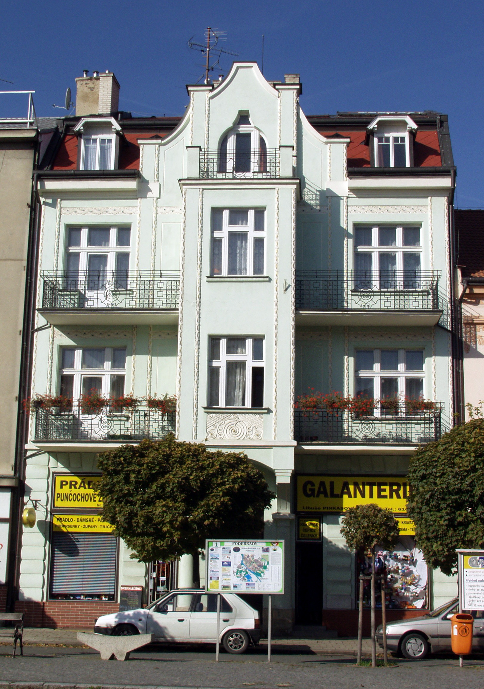 Secesní dům na Riegrově náměstí 8/9.